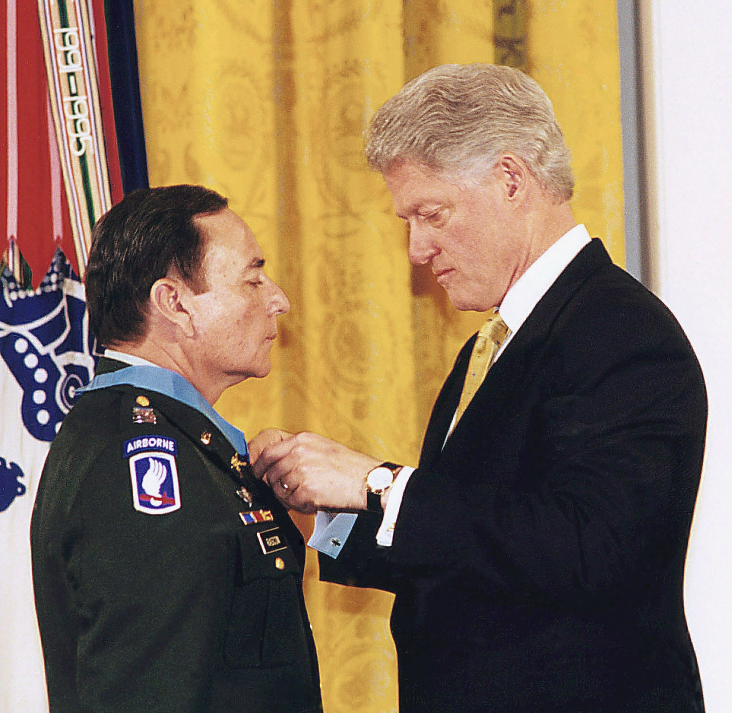 United States President Bill Clinton awards the Medal of Honor to Vietnam War veteran U.S. Army Specialist Four Alfred Rascon. Rascon served as a medic with Reconnaissance Platoon, Headquarters Company, 1st Battalion, 503rd Airborne Infantry, 173rd Airborne Brigade, and is being honored for his gallant and selfless actions during an intense enemy attack in the Long Khanh Province of Vietnam in March 1966. Location:Pentagon.